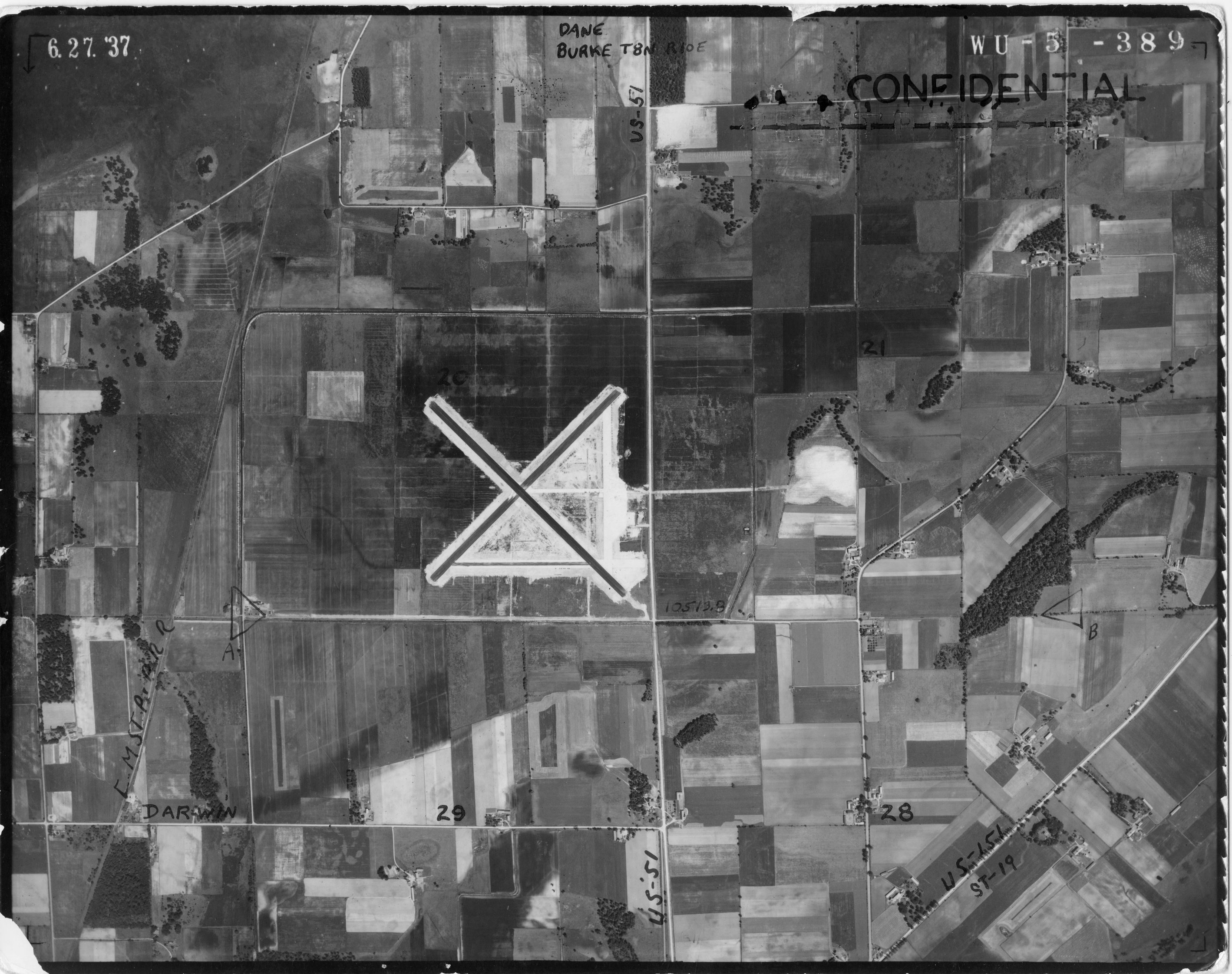 Madison Municipal Airport and surroundings, Madison, WI, June 1937. Under Construction. Dane County Agency : USDA Subject : Agriculture Roll-Exp : 5-389 6/27/1937 Dane6271937_5-389_7x9 Photograph Agency Source Information: The source agencies responsible for the original flights are the United States Department of Agriculture (USDA) and the United States Geological Survey (USGS). The vast majority of the state was flown by the USDA. Only parts of Forest, Florence, Iron, Marinette, Oneida, and Vilas counties were flown by the USGS. Photograph Information: Format: The original aerial photographs are black and white. They measure either (a)seven inches by nine inches (7”x9”) or (b) nine inches by nine inches (9”x9”). Scale: All photographs in the 1937-41 series are 1:20,000 or 1”=1667’ Copyright: As works of the United States government, all photographs in this collection are in the public domain.